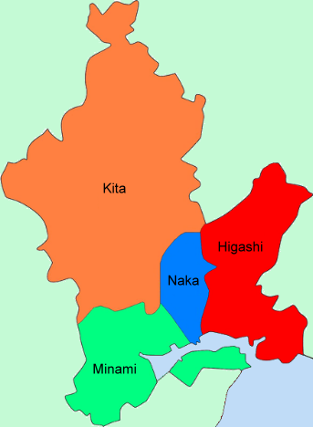 Map of wards of Okayama